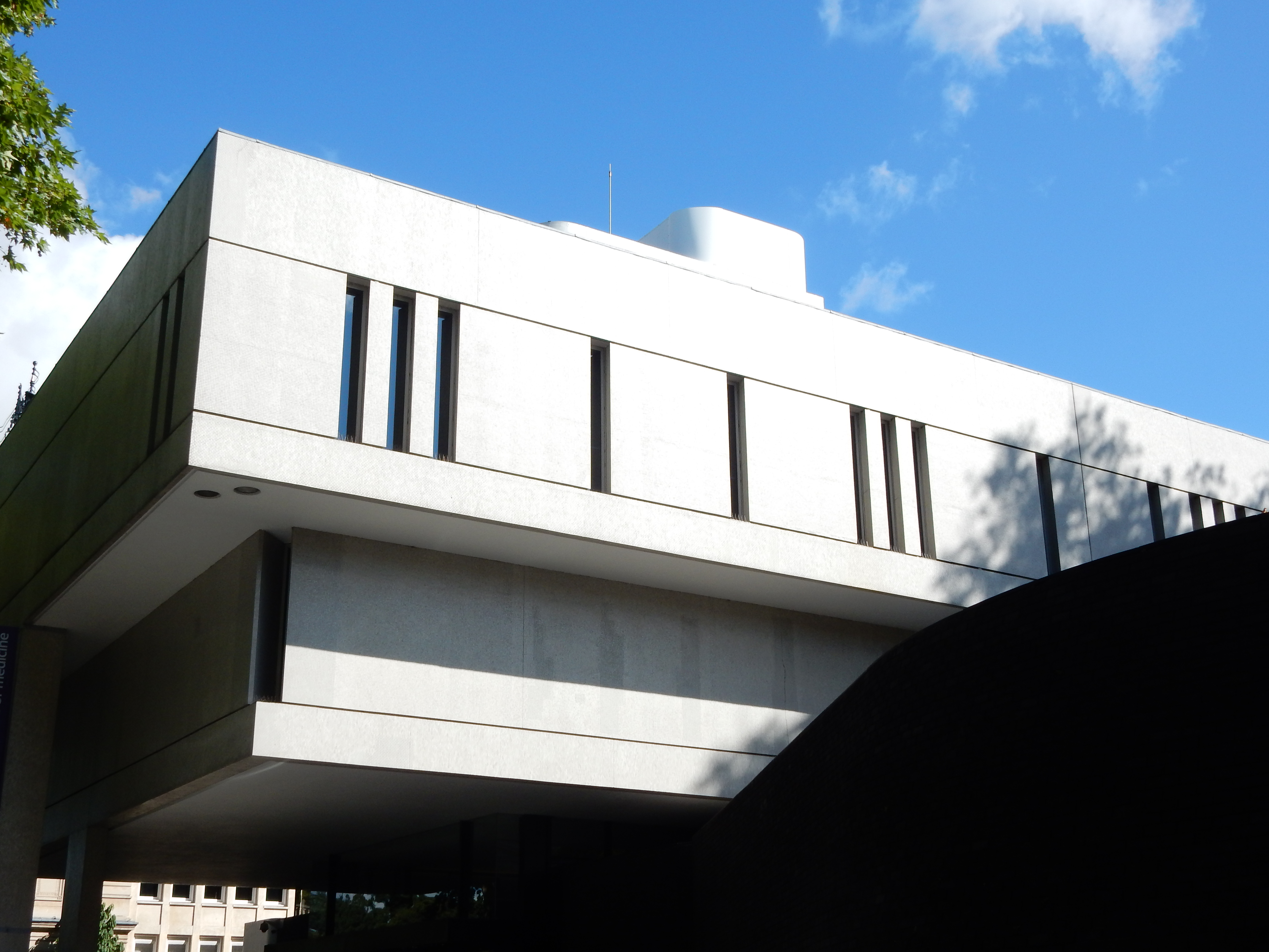 Royal College of Physicians Wikidata has entry Q21279760 with data related to this item.